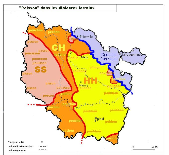 The word "fish" in the Lorraine dialects including the specific sound HH.